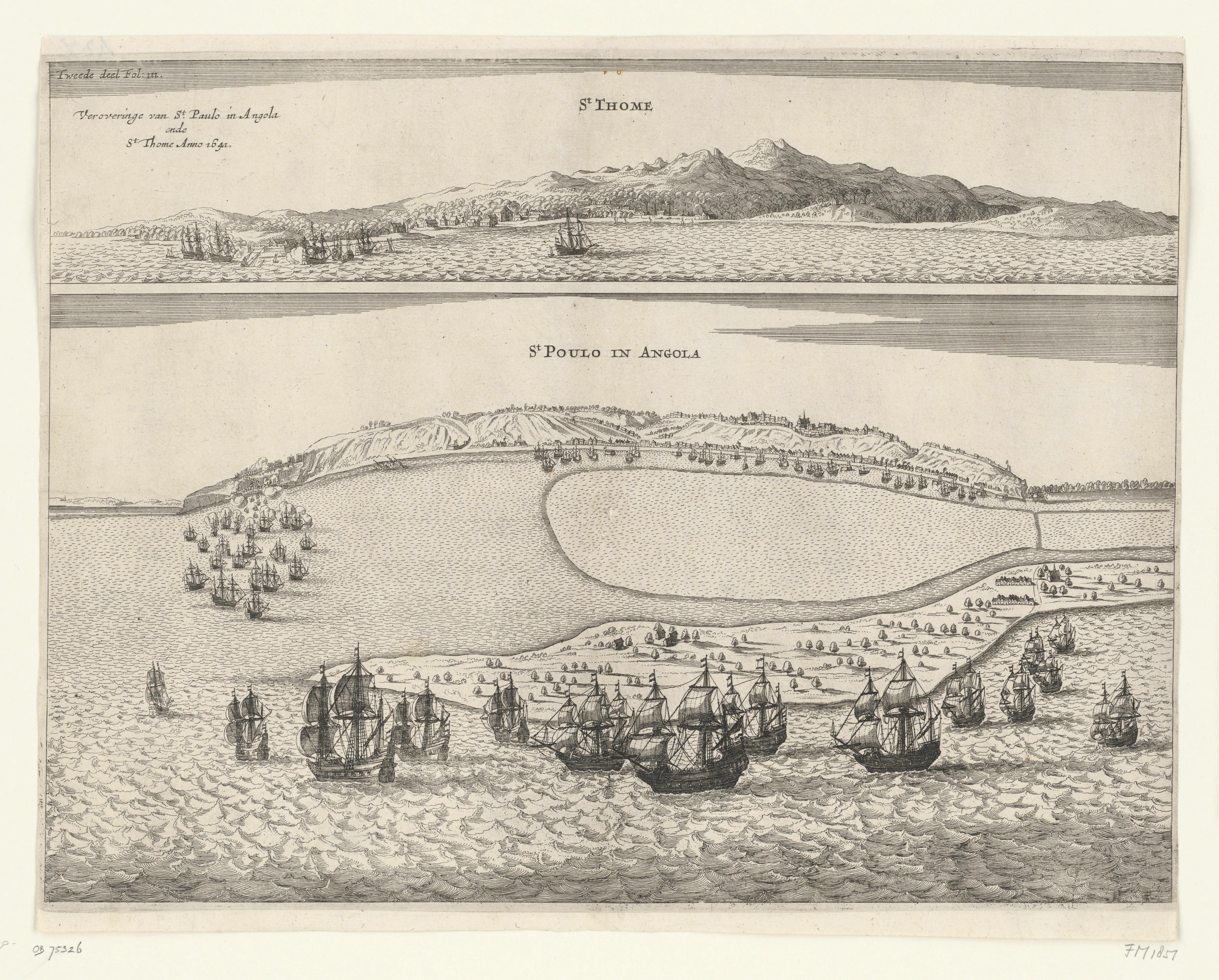 The map of Luanda, Angola (former São Paulo) and São Tome.